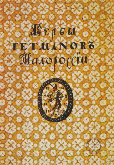 Heorhii Narbut: cover for The Coats-of-Arms of Hetmans of Little-Russian (Ukraine), 1915